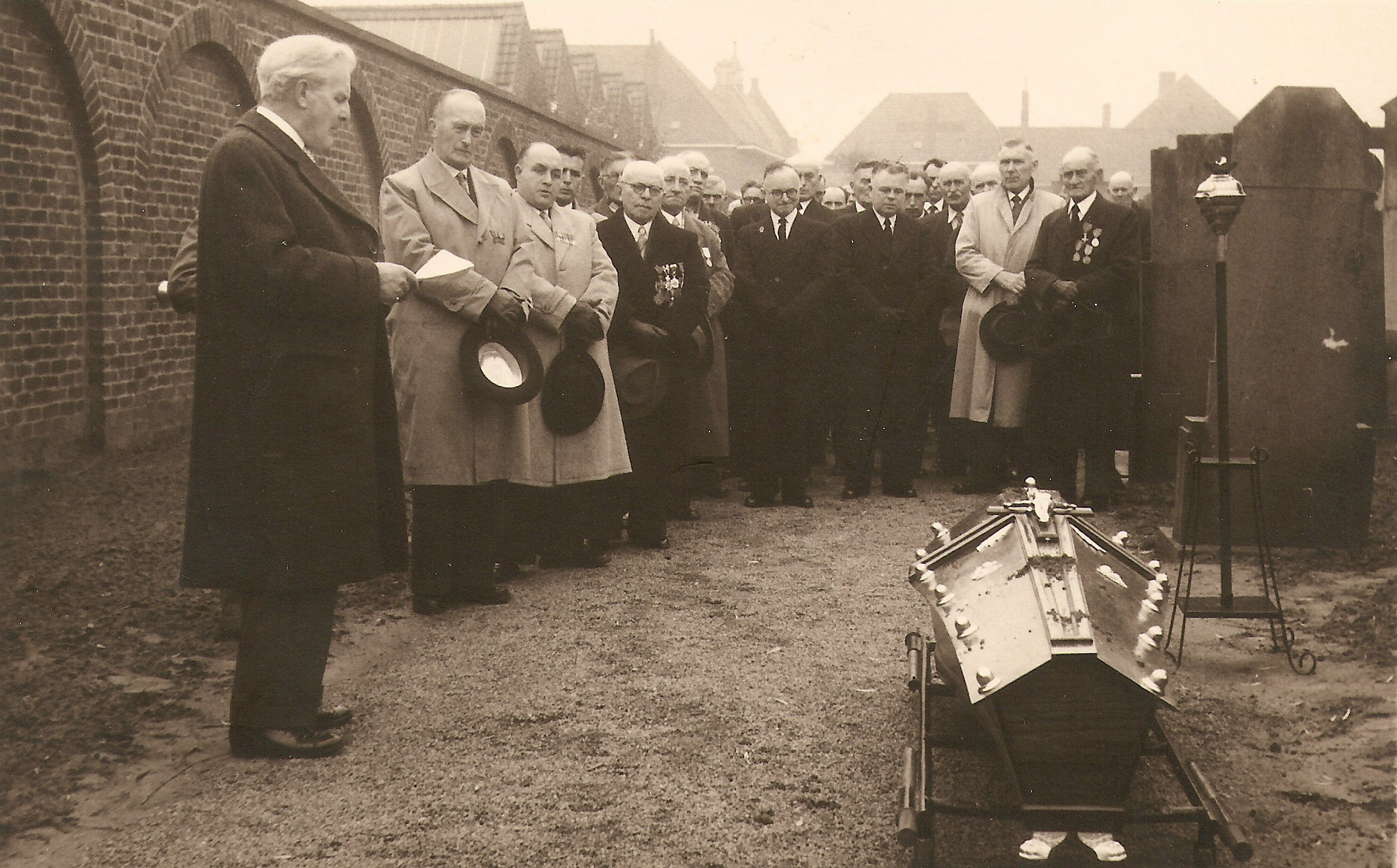 Leon Defraeye giving an eulogy at the funeral of a WW I veteran in Deerlijk